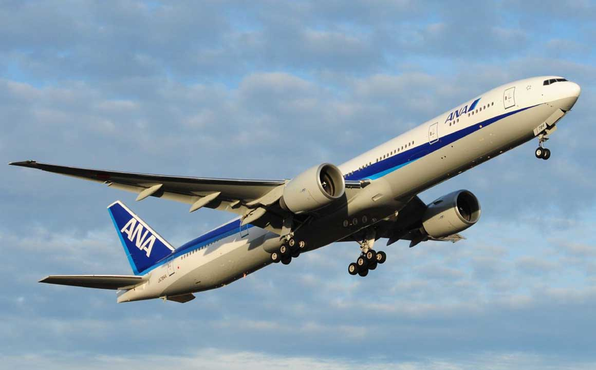 Snohomish County Airport: ANA JA784A Boeing 777 Delivery Flight (photograph taken at Paine Field Jan 2010)